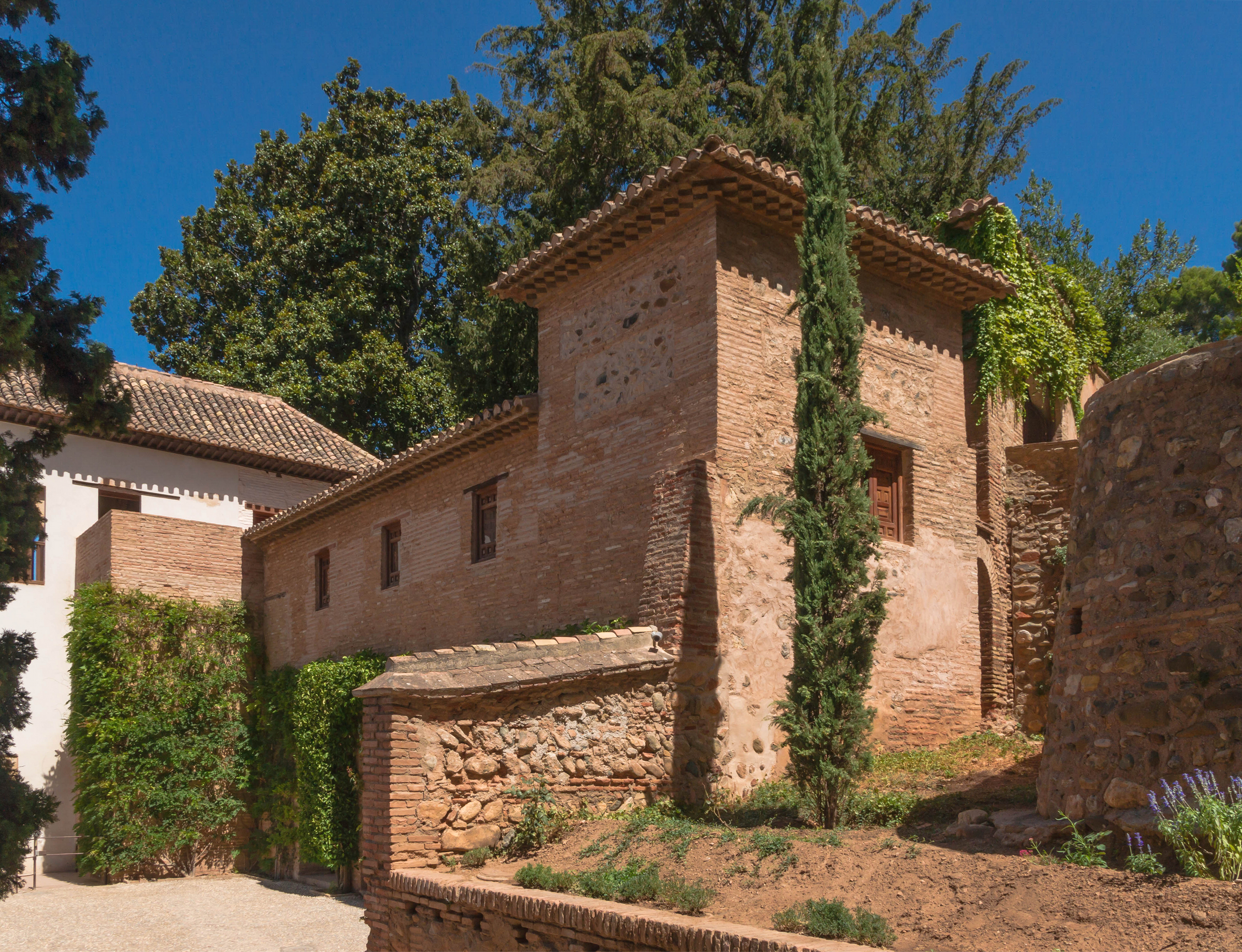 Ancient arab building, 15th-century, Generalife, Granada, Spain.